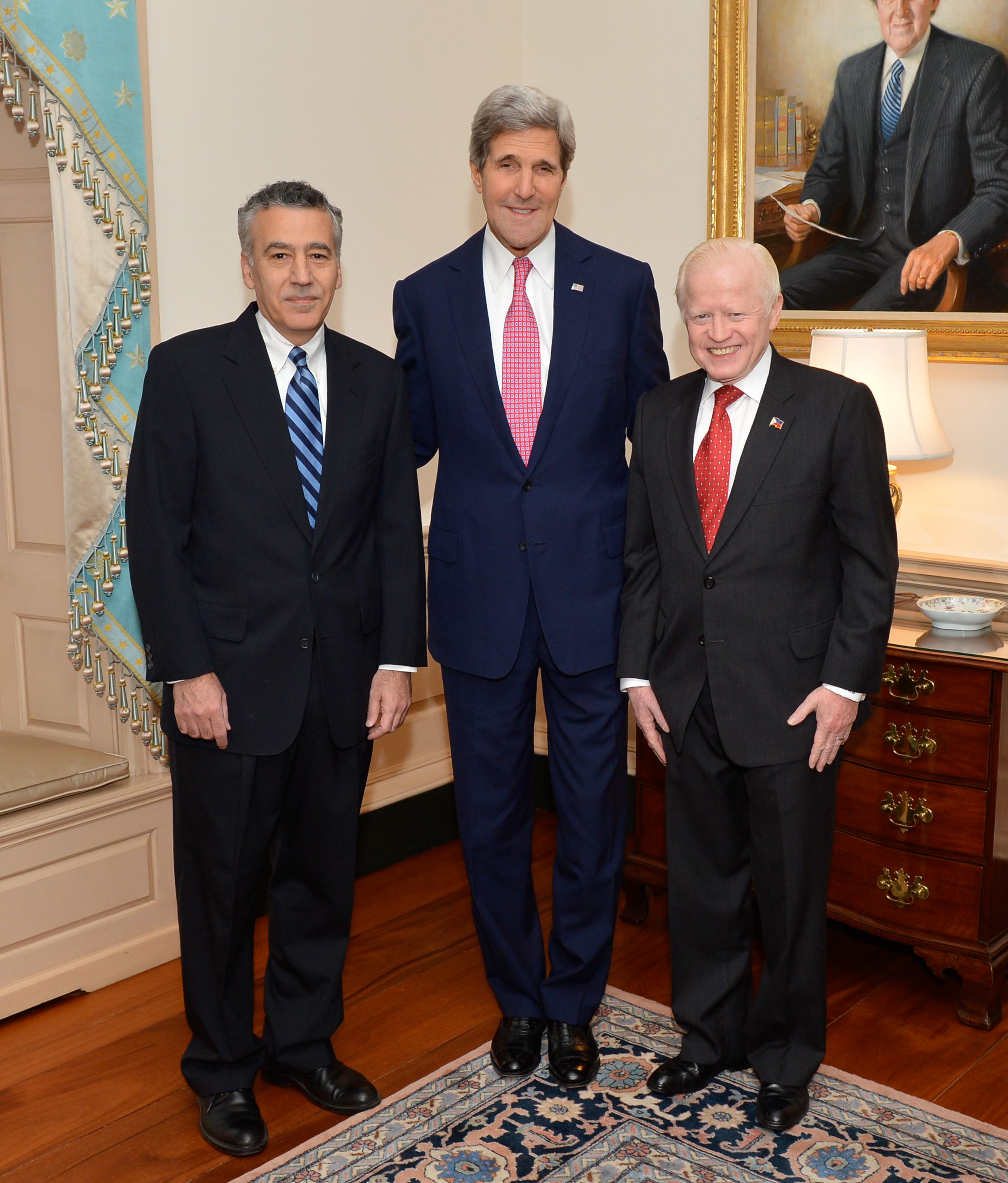 U.S. Secretary of State John Kerry, U.S. Ambassador to the Philippines Philip Goldberg, left, and Philippine Ambassador to the U.S. Jose Lampe Cuisia, Jr., right, pose for a photo at Ambassador Goldberg's swearing-in ceremony at the U.S. Department of State in Washington, D.C., on November 21, 2013. [State Department photo/ Public Domain]